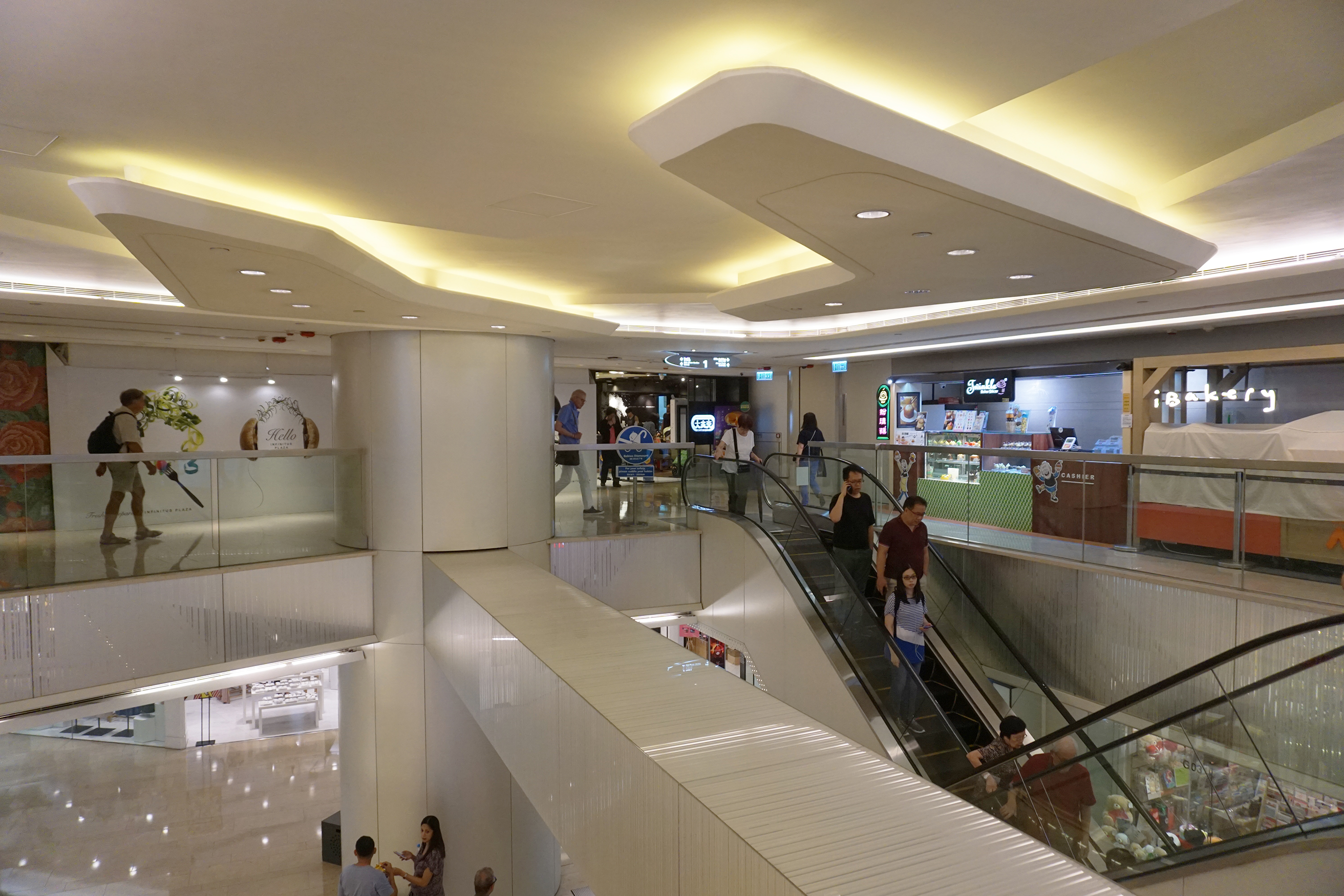 Infinitus Plaza in Sheung Wan, Hong Kong.